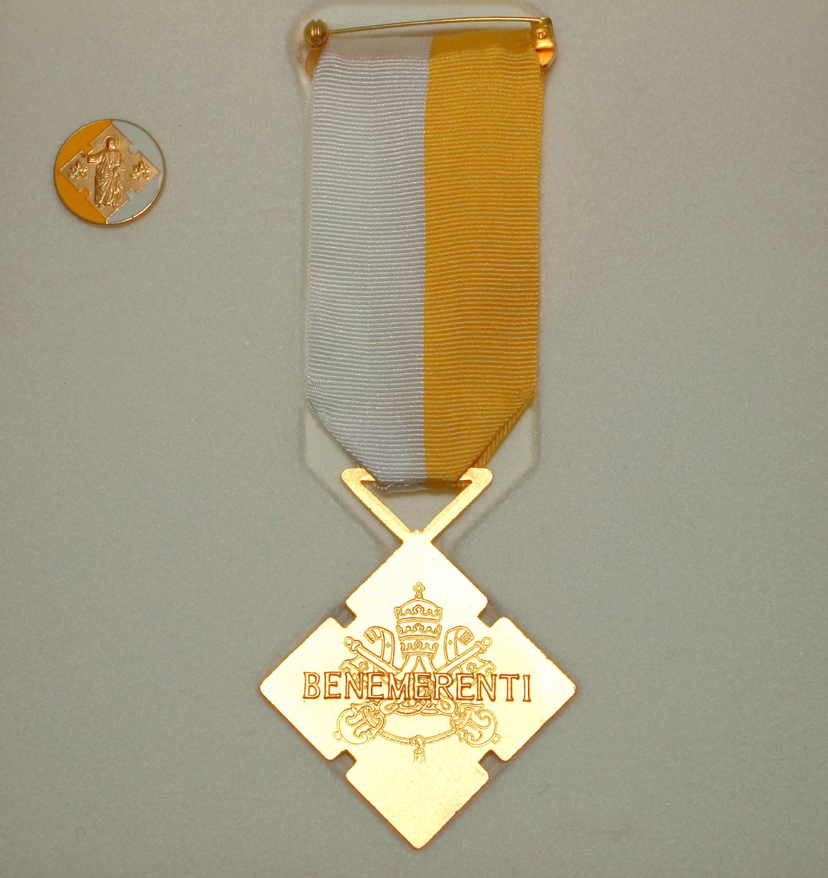 Back view of the Benemerenti medal awarded to John Parnell Murphy in 2009.